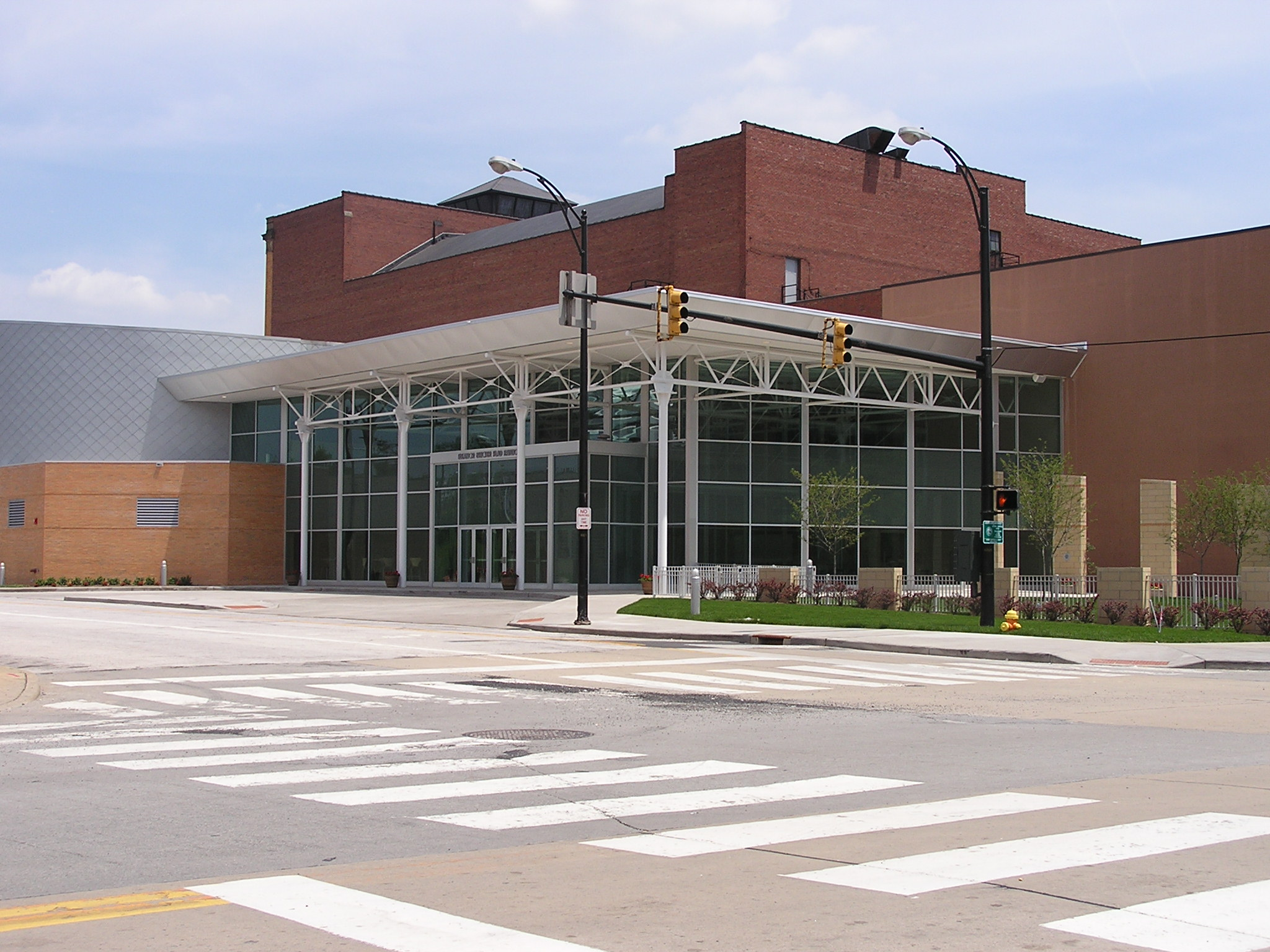 Photo of the Powers Auditorium (DeYor Center), in Youngstown, Ohio, United States.